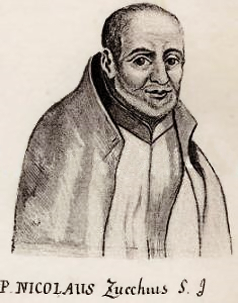 Niccolò Zucchi (December 6, 1586 – May 21, 1670) an Italian Jesuit, astronomer, and physicist. He may have been the first to see the belts on the planet Jupiter (on May 17, 1630) and reported spots on Mars in 1640. In his book "Optica philosophia experimentalis et ratione a fundamentis constituta" in 1652–56 he described his attempt in 1616 to construct a reflecting telescope, which may be the first time anyone ever tried to construct one.